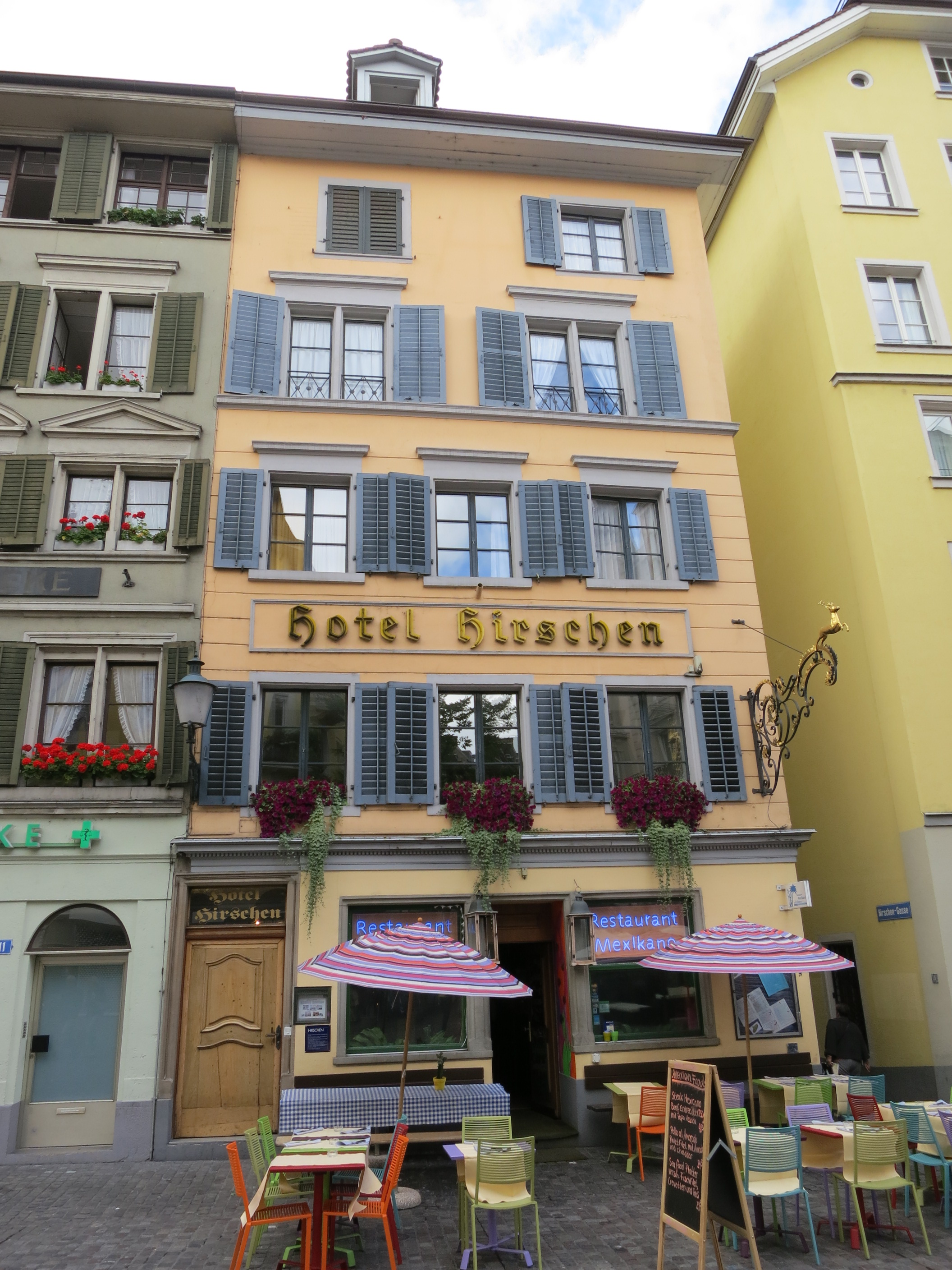 Hotel Hirschen, Niederdorf, Zürich, Schweiz